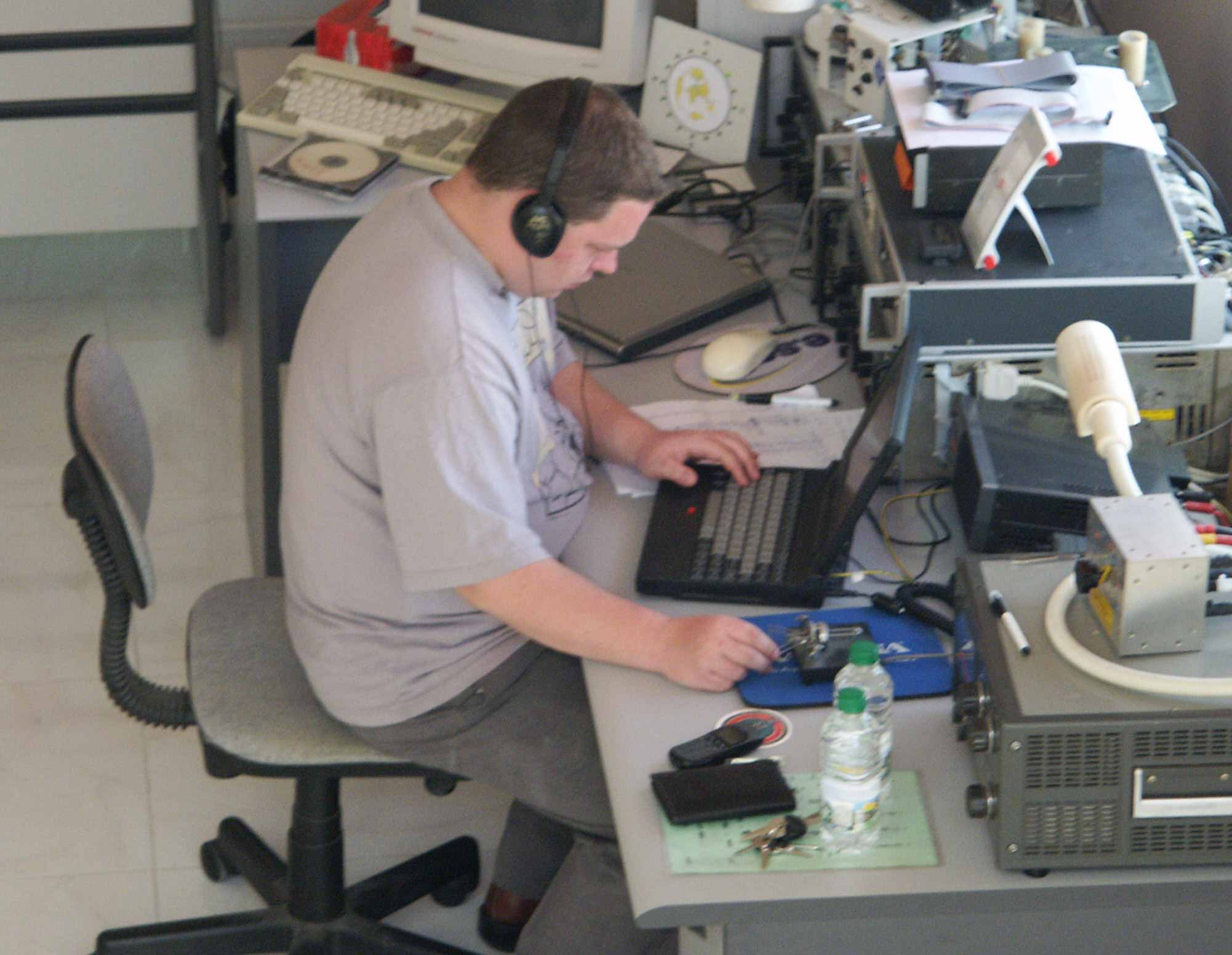 Gerry Lynch, G0RTN, operates on a holiday DXpedition to Oman in January 2005.